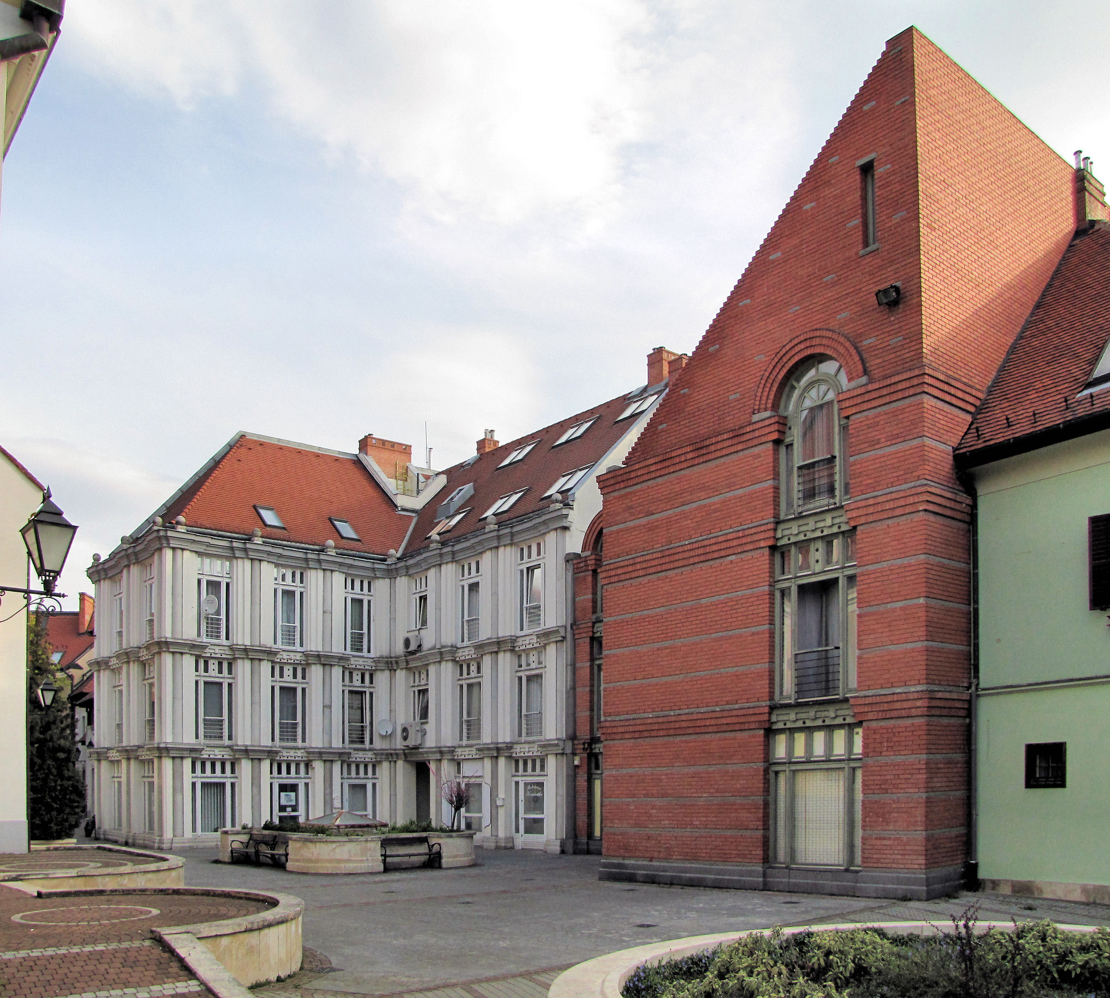 Houses in Székesfehérvár, Hungary. Architect: György Vadász, 1994.